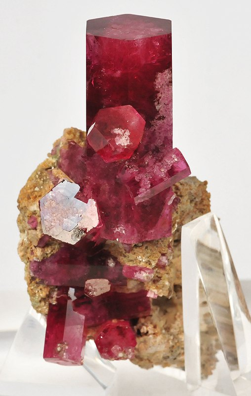 Antimony, Beryl Locality: Harris Claim, Wah Wah Mountans, Utah Size: small cabinet, 6 x 2.7 x 2.6 cm Red Beryl This is a superb red beryl specimen. It is considered by many to be one of the finest and most unique American mineral specimens in existence. It was mined and sold directly to prominent collector F. John Barlow in the early 1990s (and is listed in his book, page 357, as the world's foremost example of the species). He had a core suite of 14 remarkable specimens of which this was the most important, and spent a fortune keeping on top of the finds here to have the best assemblage possible from this unique site. The locality is currently defunct but until recently was attracting the attention of gemstone giants like Tiffany's for its novel mineral. This particular piece is featured prominently in many media, including the F. John Barlow Collection Book, Lapis special issues on beryls, and probably any other work that references red beryl. Although it "disappeared" briefly and could not make the American Mineral Treasures exhibition in Tucson in 2008, it well should have been in that compendium case. However, the photo was still chosen as the lead specimen for the Red Beryl chapter of the companion book to that monumental exhibition, and is shown full-page on page 217 of American Mineral Treasures. The crystal is 2 inches.